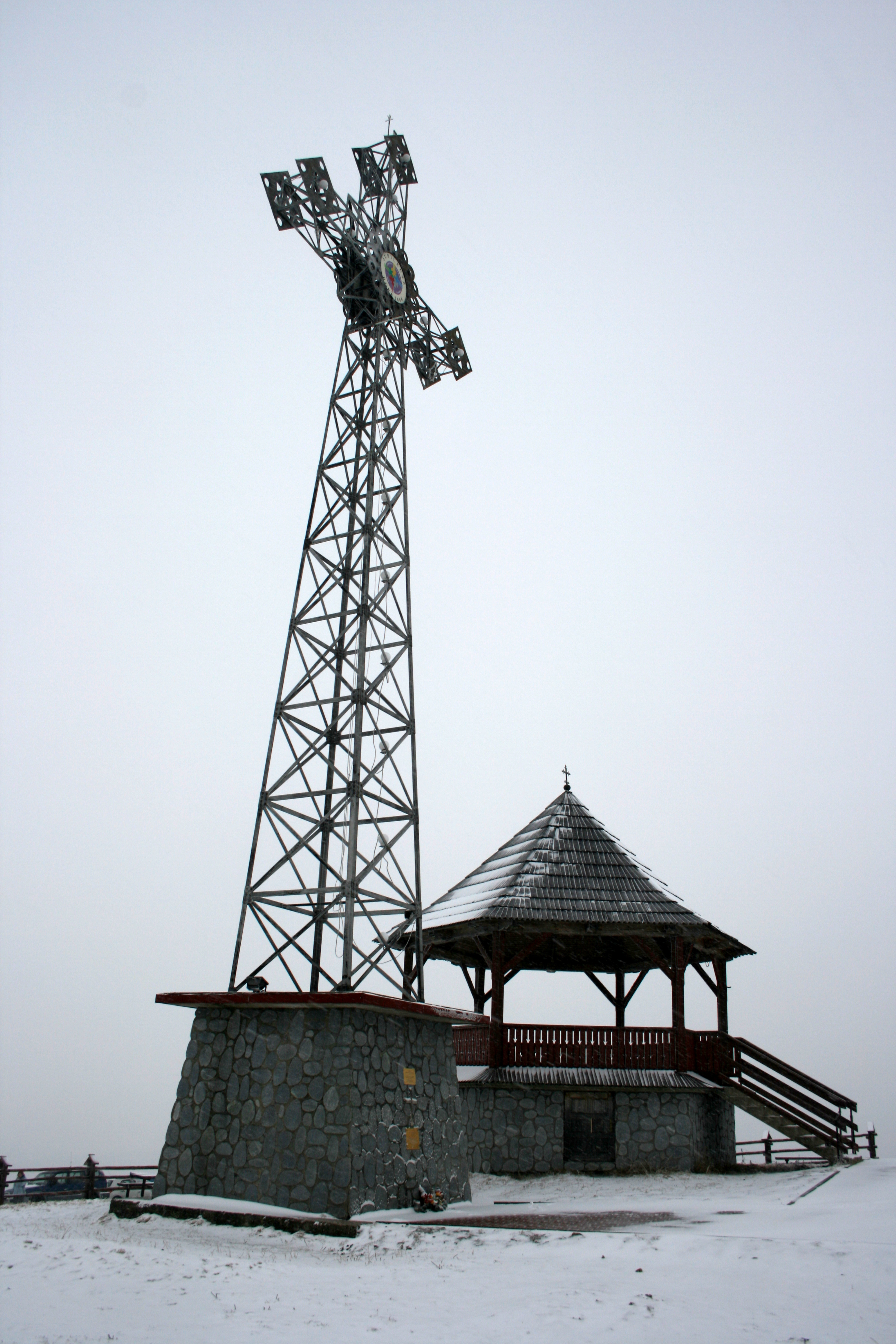 Millennium Cross on top of czarna Góra mountain